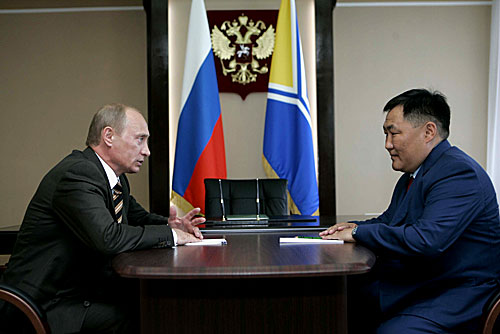 KYZYL, TYVA REPUBLIC. With President of the Tyva Republic Sholban Kara-ool.